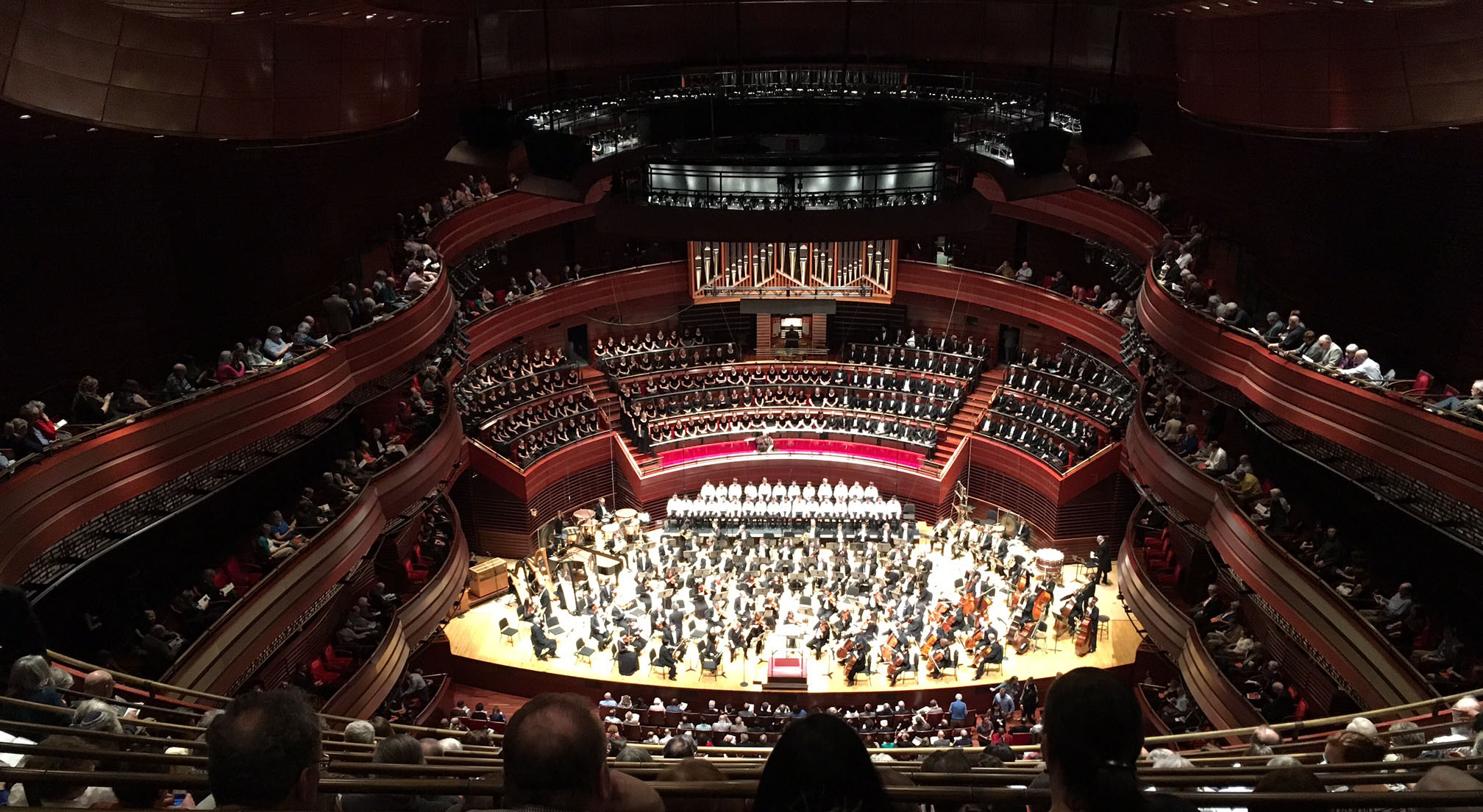 Philadelphia Orchestra, conducted by Yannick Nézet-Séguin, preparing to perform Mahler's 8th Symphony, Verizon Hall, Philadelphia, Pennsylvania, 10 March 2016. 100th anniversary of the 1916 American premiere of Mahler's 8th Symphony by the Philadelphia Orchestra, conducted by Leopold Stokowski.